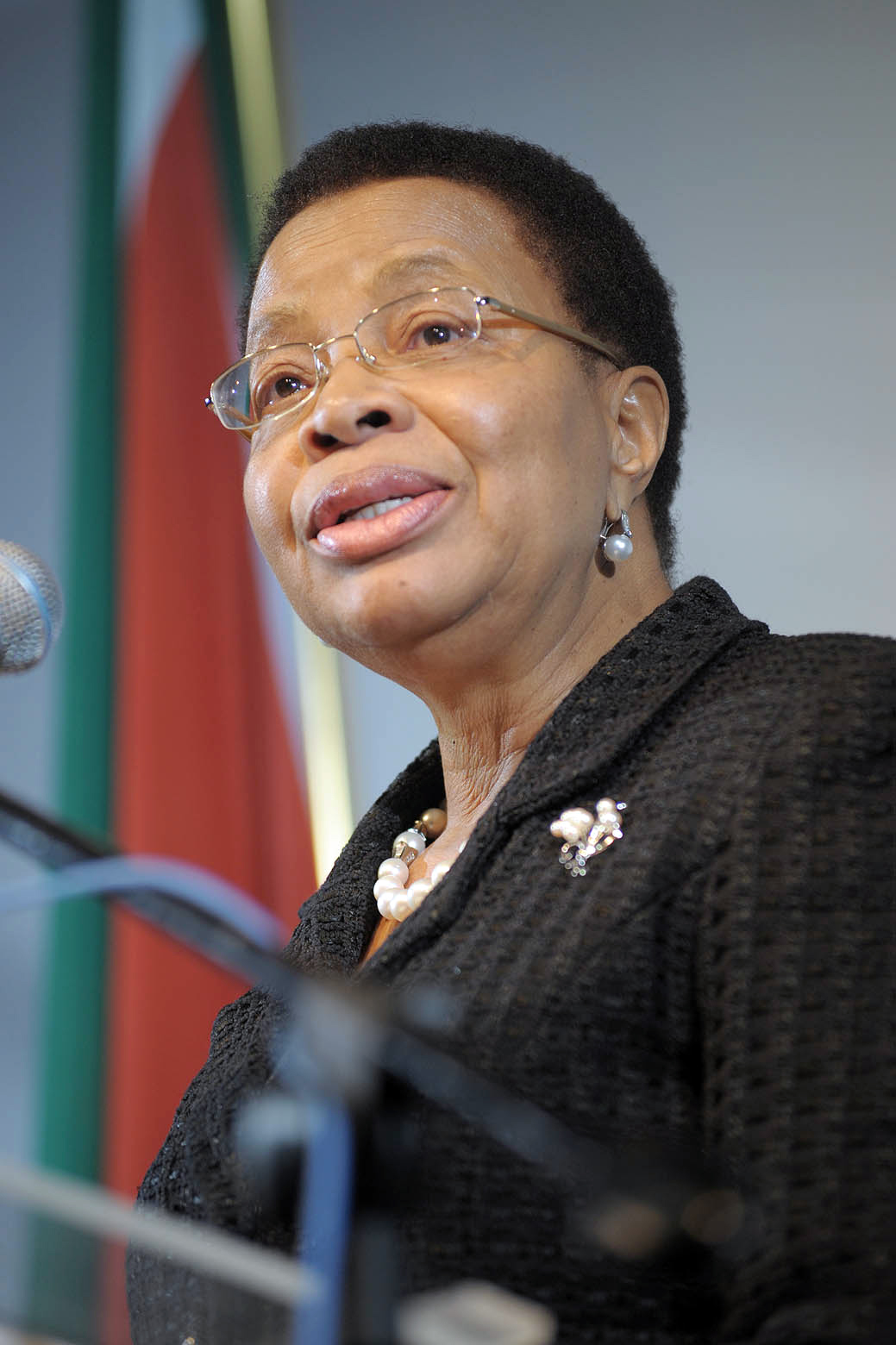 Madame Graça Machel at the Sports for Peace Gala 2010 in Johannesburg